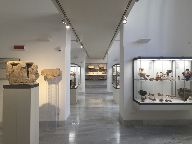 salamuseo 2